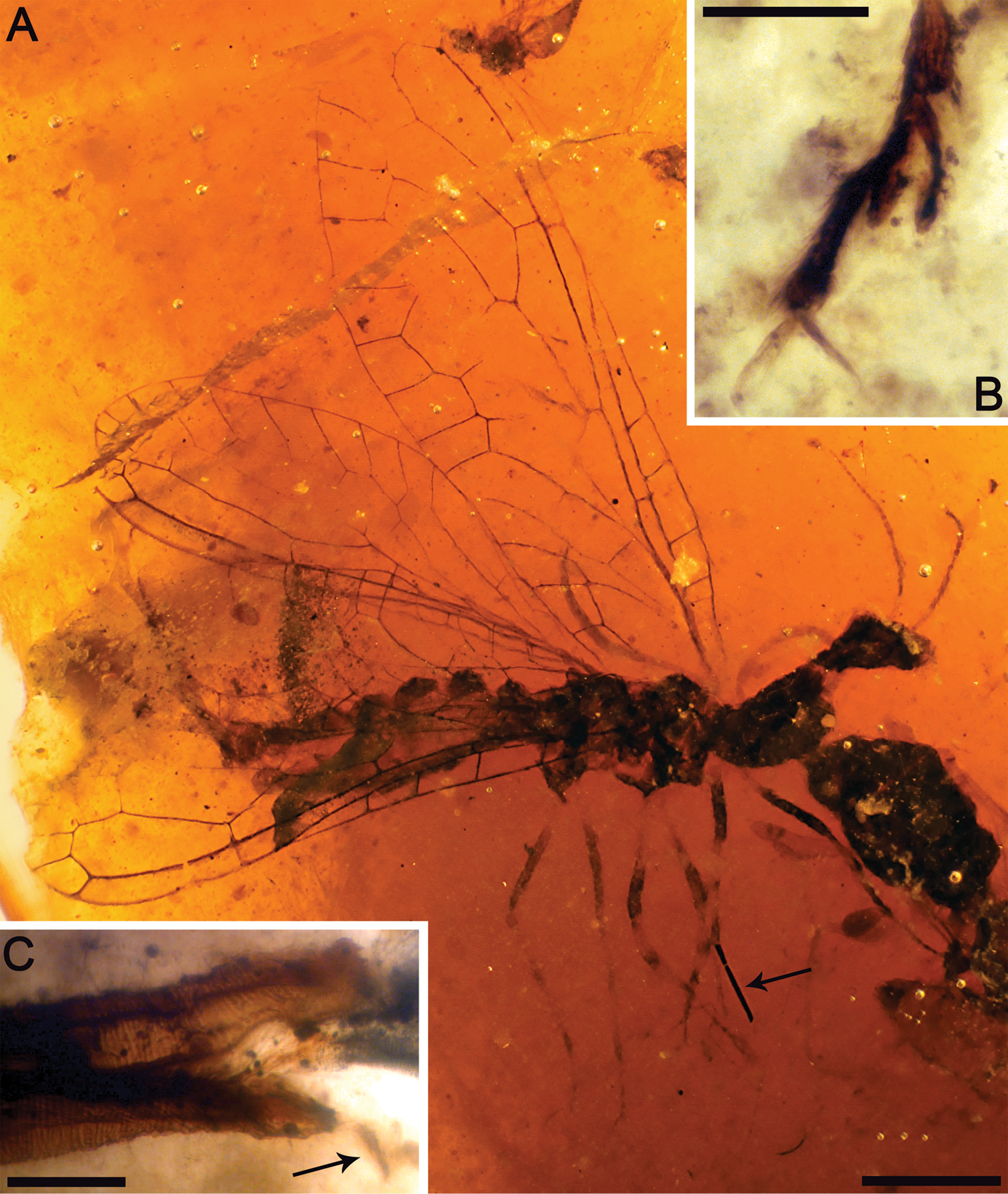 Amarantoraphidia ventolina gen. et sp. n., holotype CES 364.1. A lateral habitus, note a charcoalified plant fiber near the specimen (arrow) B left metatarsi showing bilobed third tarsomere C distal portion of ovipositor, note its dense annulation; arrow points to a gonostylus. Scale bars: A = 1 mm; B, C = 0.1 mm